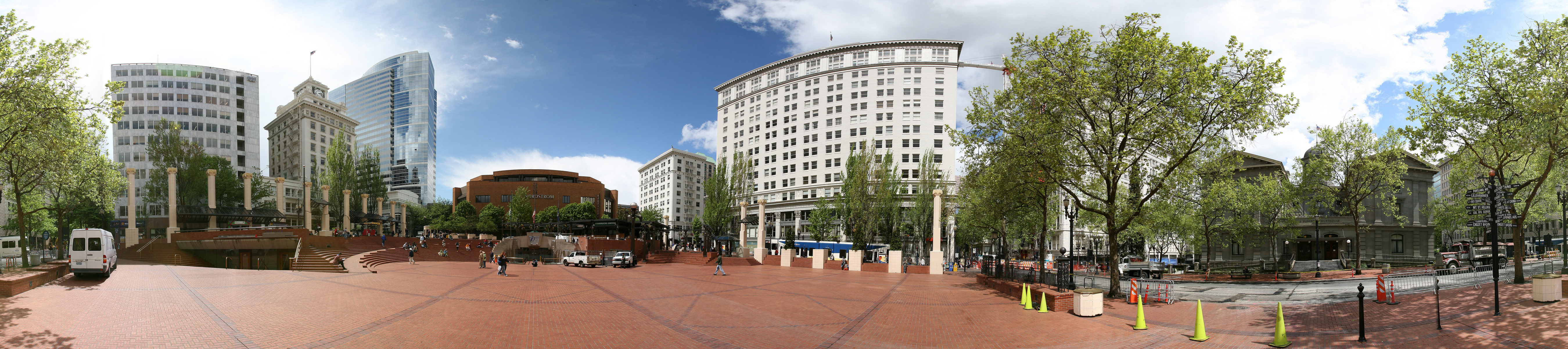 A 360 degree panorama of Pioneer Courthouse Square in Portland, Oregon